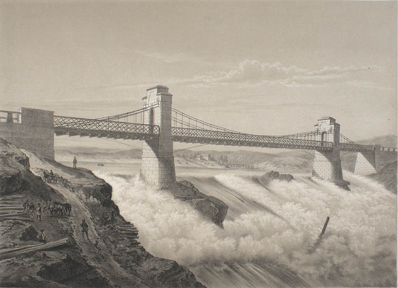 Pictures from the work "Norge fremstillet i Tegninger" from 1848 by Christian Tønsberg. The picture depicts sarpsborg, Østfold county, Norway.